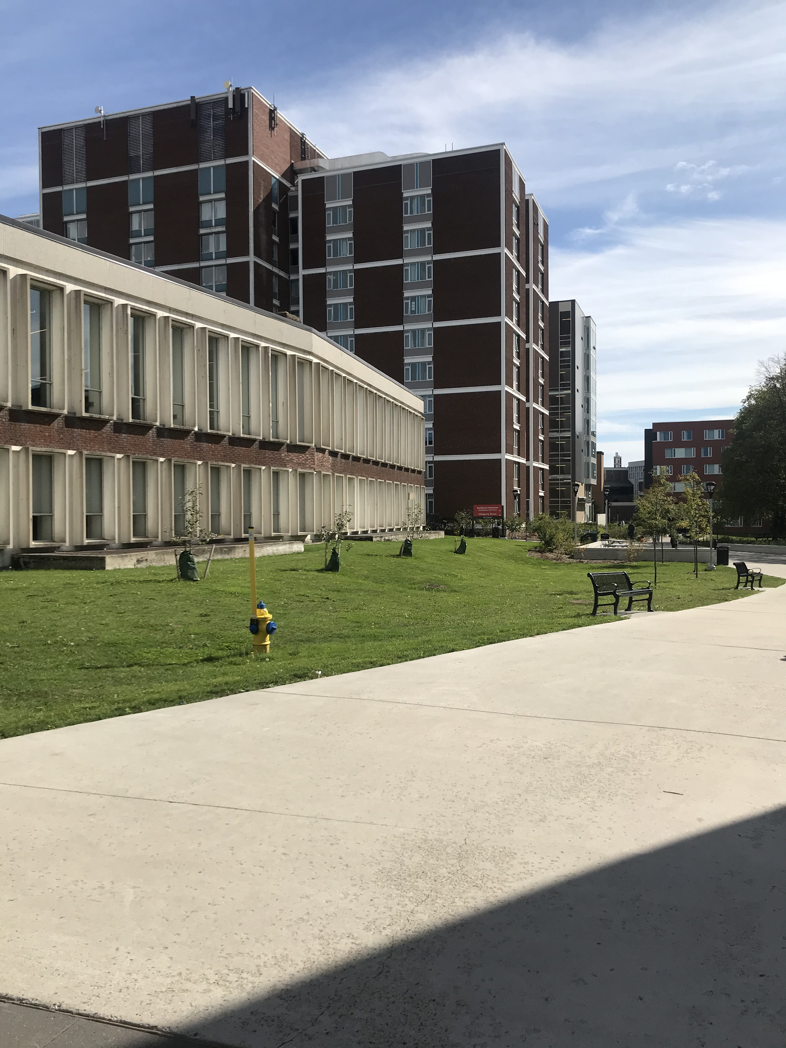 Residence Commons & Glengarry House, Carleton University